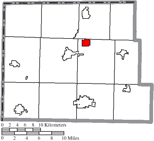 Map of the municipal and township boundaries of Williams County, Ohio, United States, as of the 2000 census, with the location of the village of Holiday City highlighted. Township borders are shown only in unincorporated areas in order to differentiate incorporated and unincorporated areas more clearly.